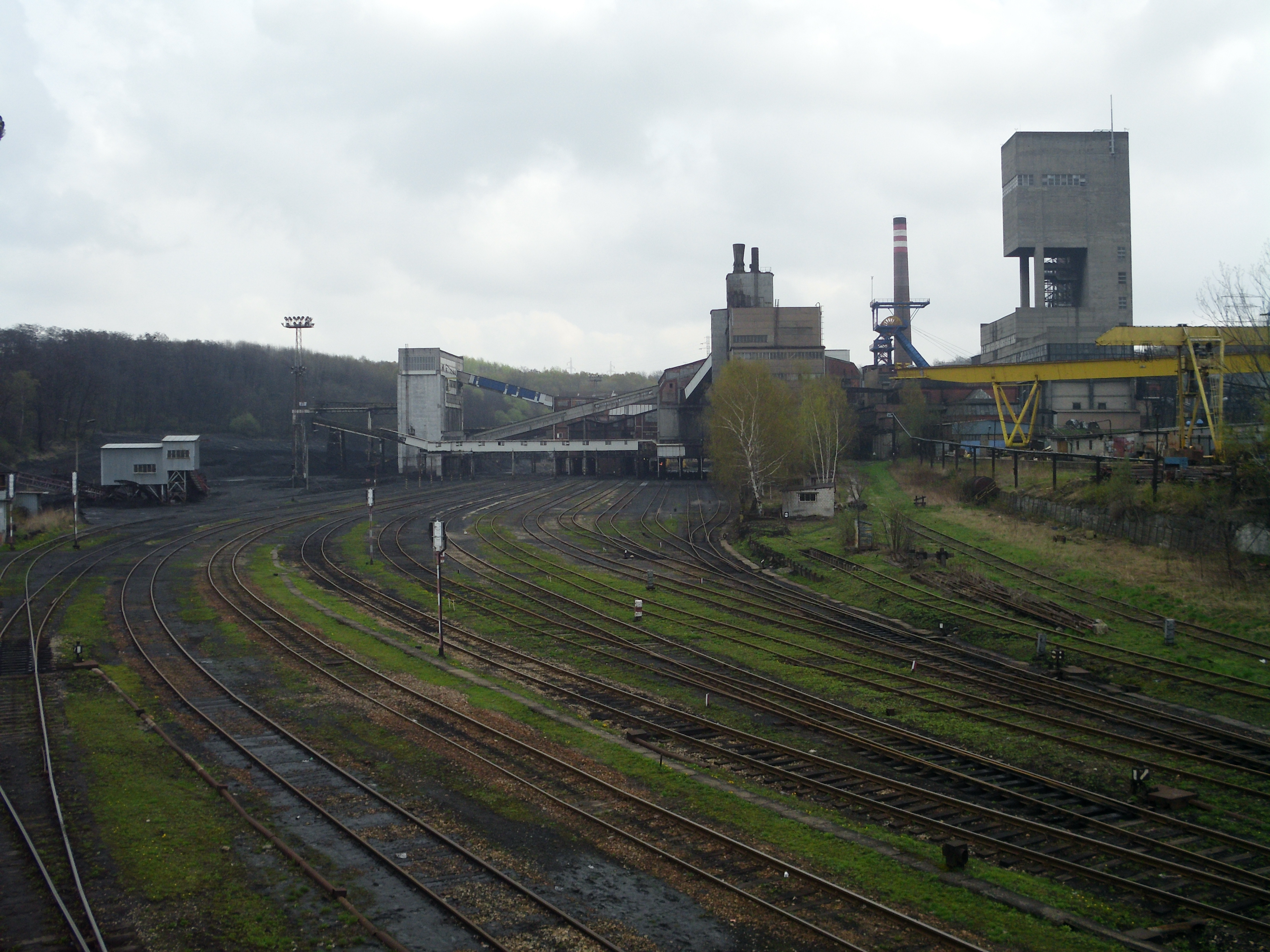 Business tracks of Anna Coal Mine in Pszów, Poland, shortly after closing the mine that ended regular traffic.